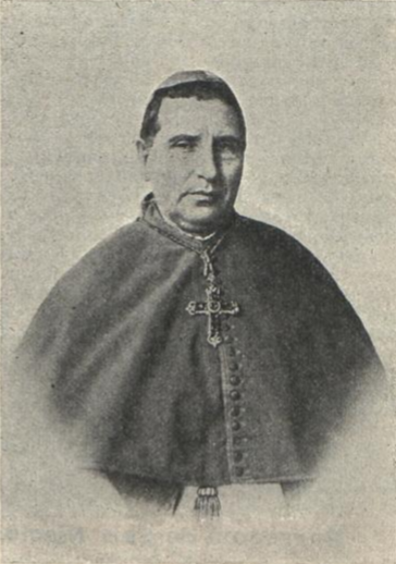 Pedro de las Casas y de Souto